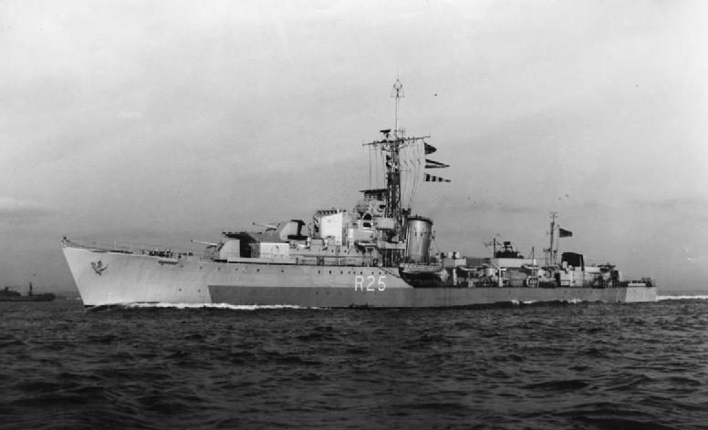 British C class destroyer HMS Carysfort underway